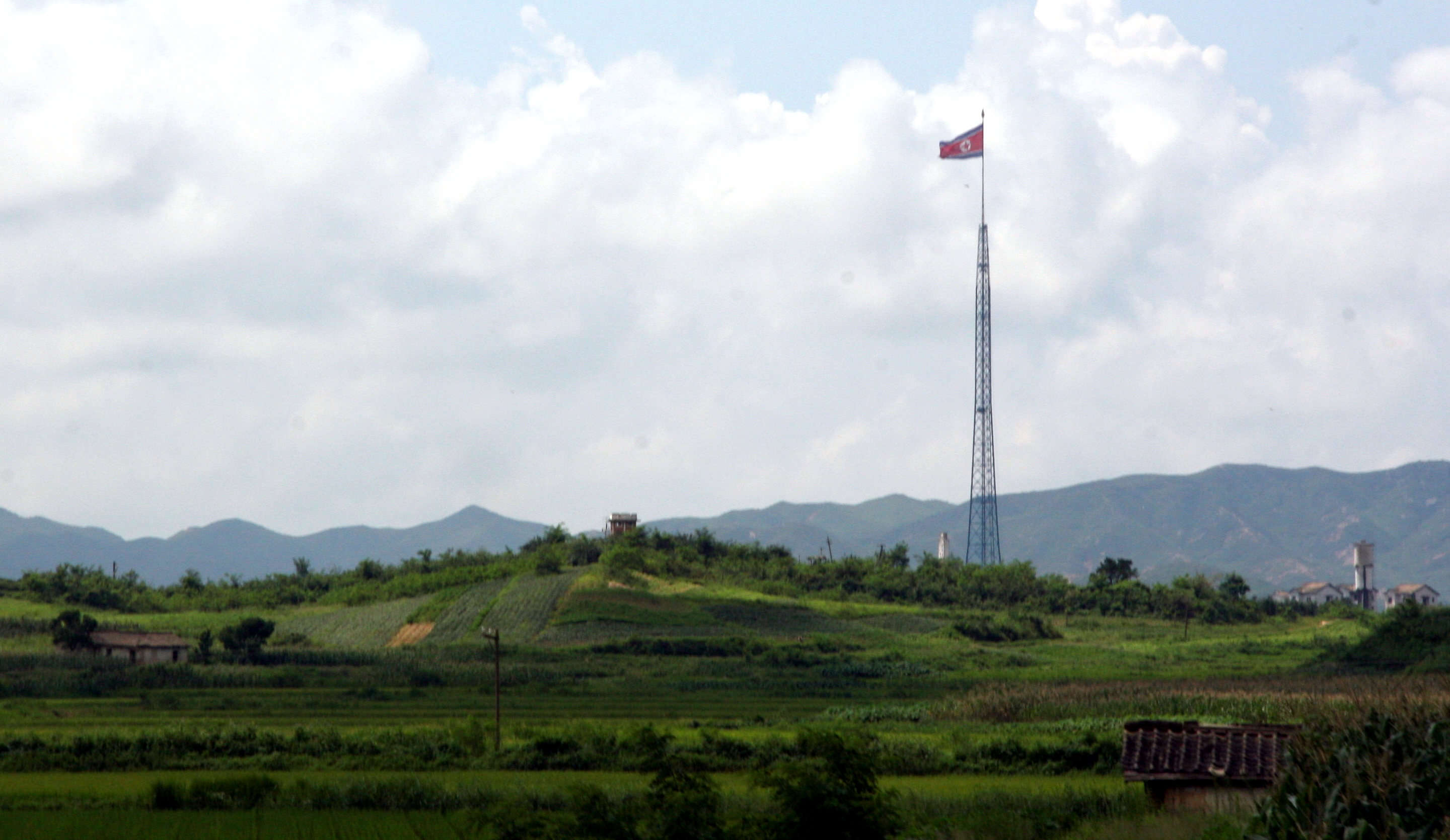 Kijong-dong, a Demilitarized Zone 'ghost town' - Kaesong Province, North Korea.